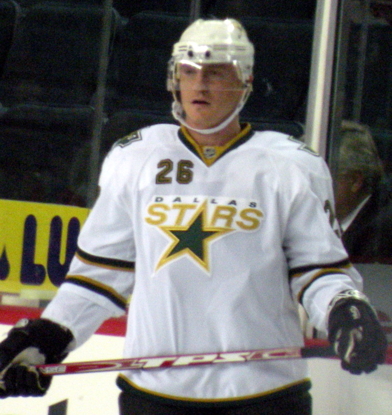 Dallas Stars forward Jere Lehtinen during warm-up prior to a National Hockey League game against the Calgary Flames in Calgary.